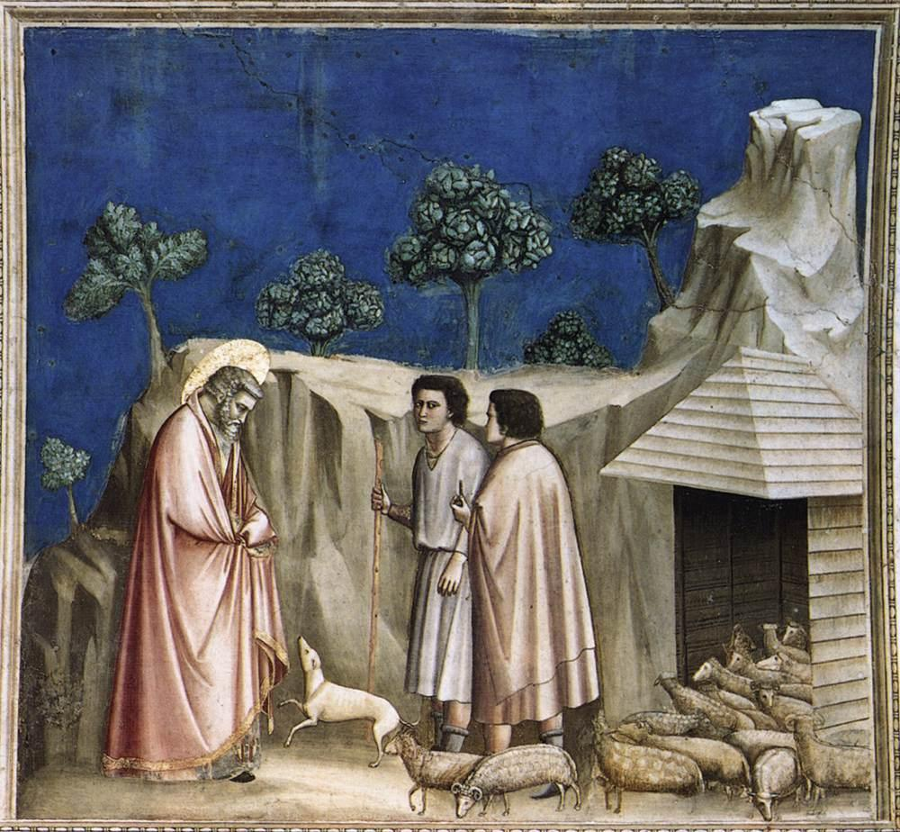 Legend of St Joachim